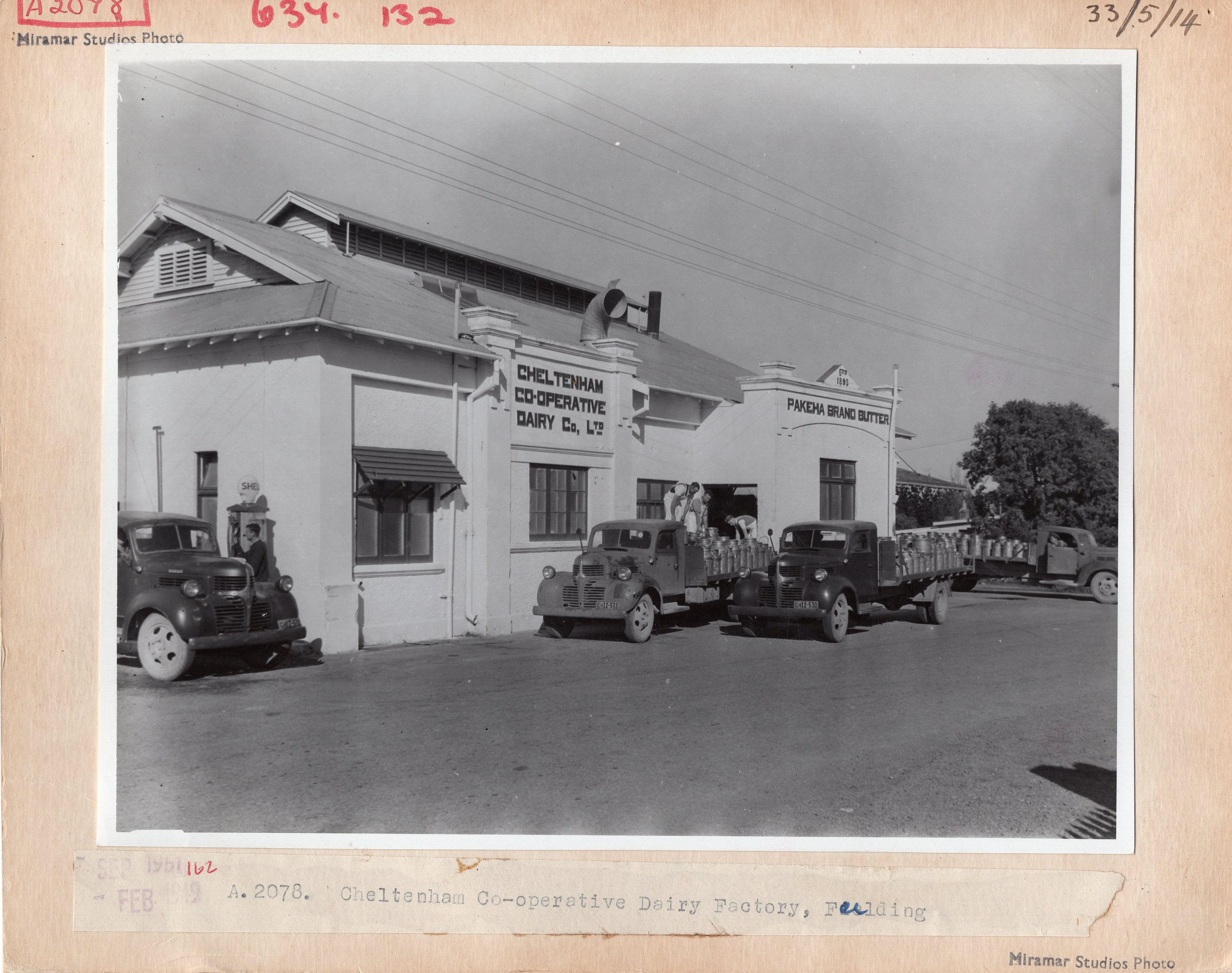 Archives New Zealand Reference: AAFZ 6329 W3302 Box 49